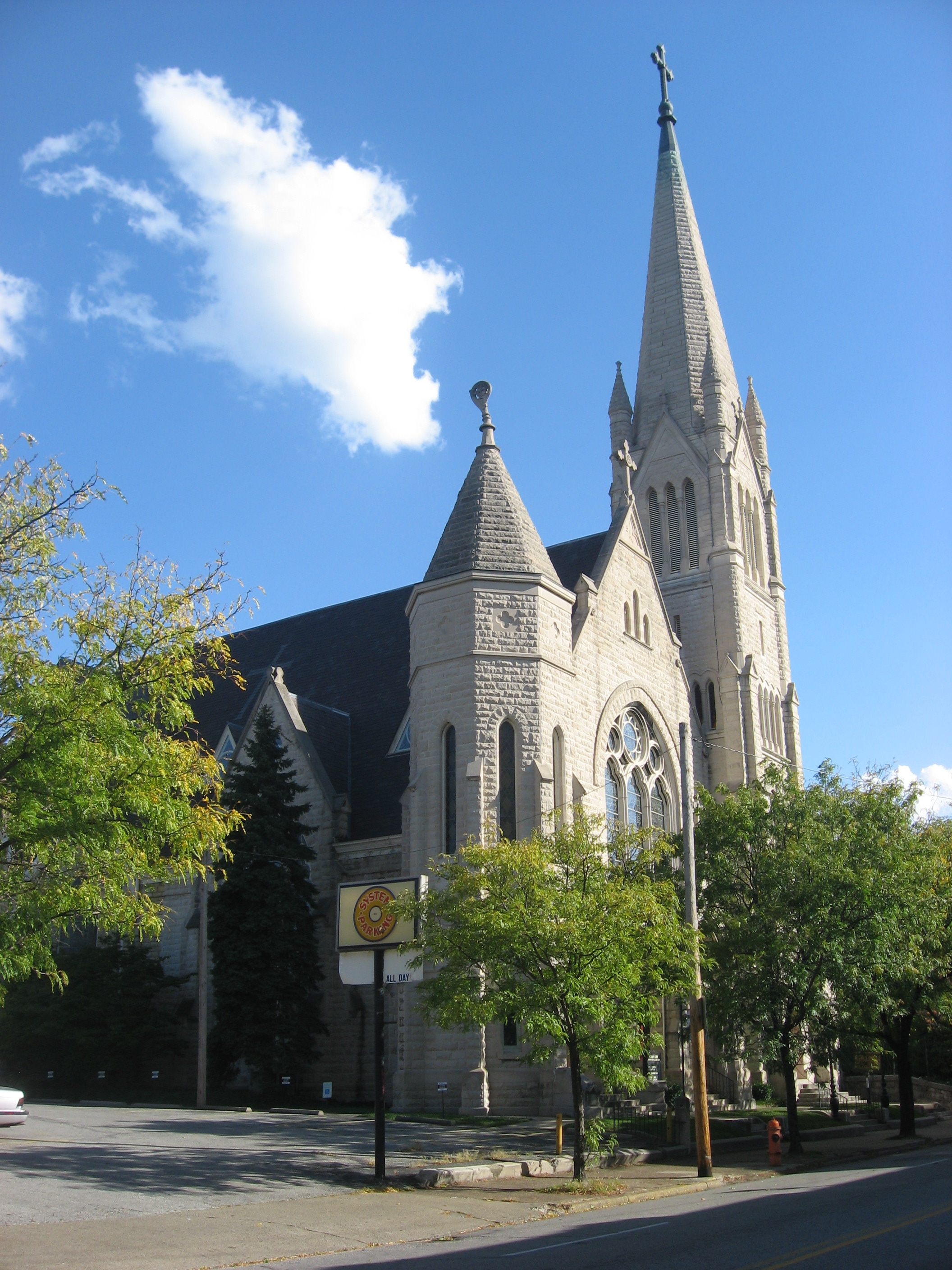 Front and northern side of Calvary Episcopal Church, located at 821 S. Fourth Street in Louisville, Kentucky, United States. Built in 1876, it is listed on the National Register of Historic Places.